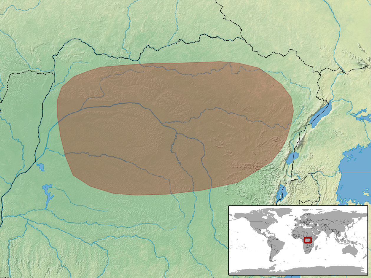 geographic distribution of Monopeltis guentheri (Native: Congo, The Democratic Republic of the)